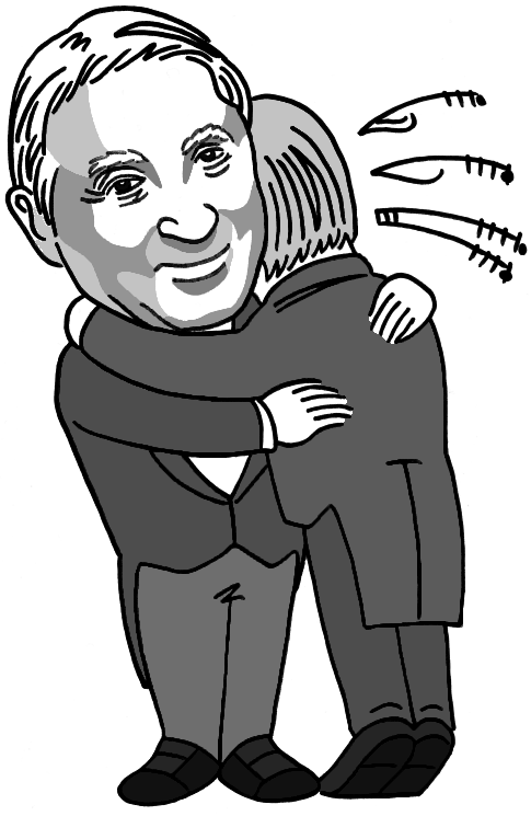 Caricature of Nicolas Slonimsky consoling, on his shoulder, a musician who is crying musical notes